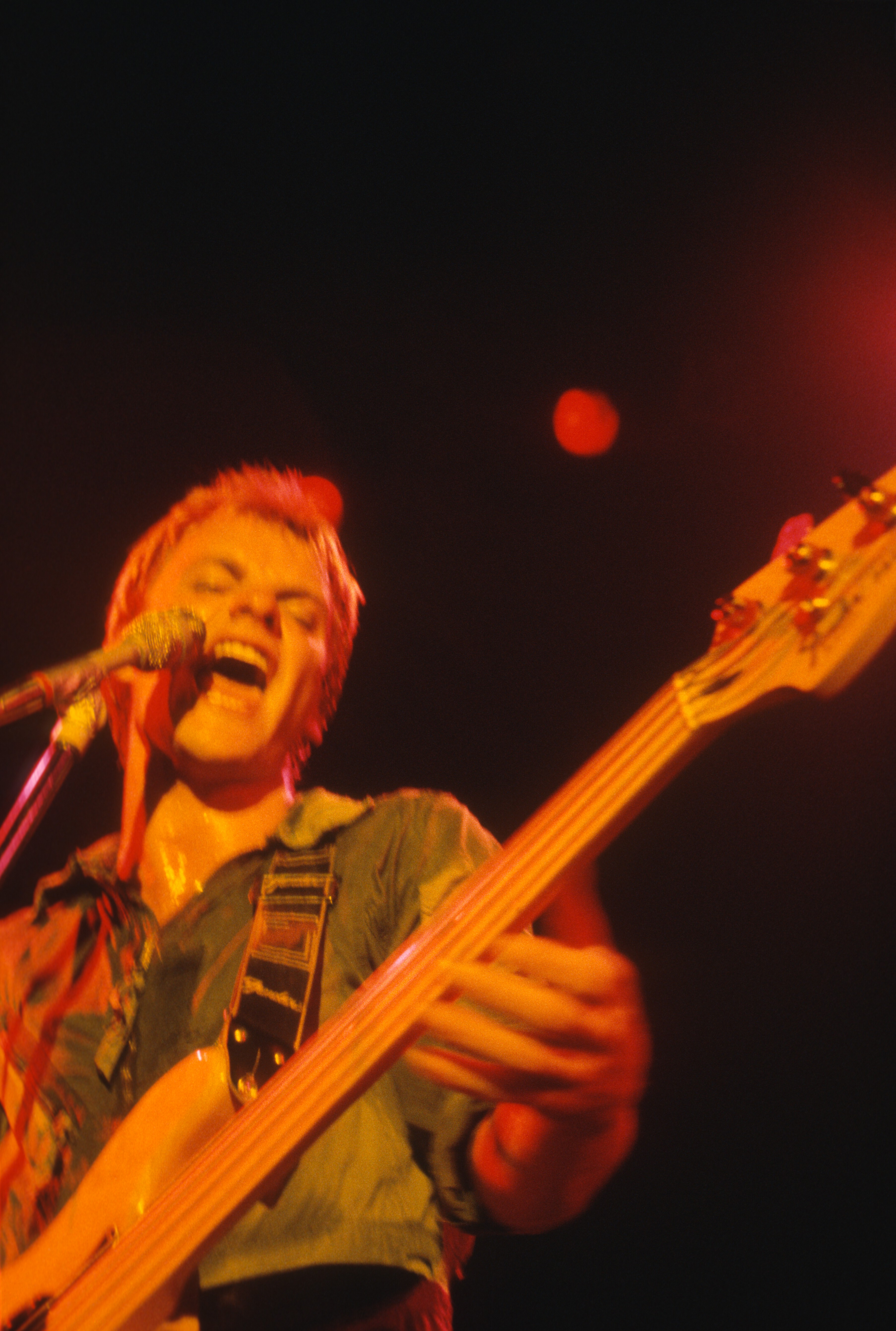 Sting at the Police concert at the Agora Ballroom, Atlanta, Georgia in 1979. Scanned Ektachrome slide.